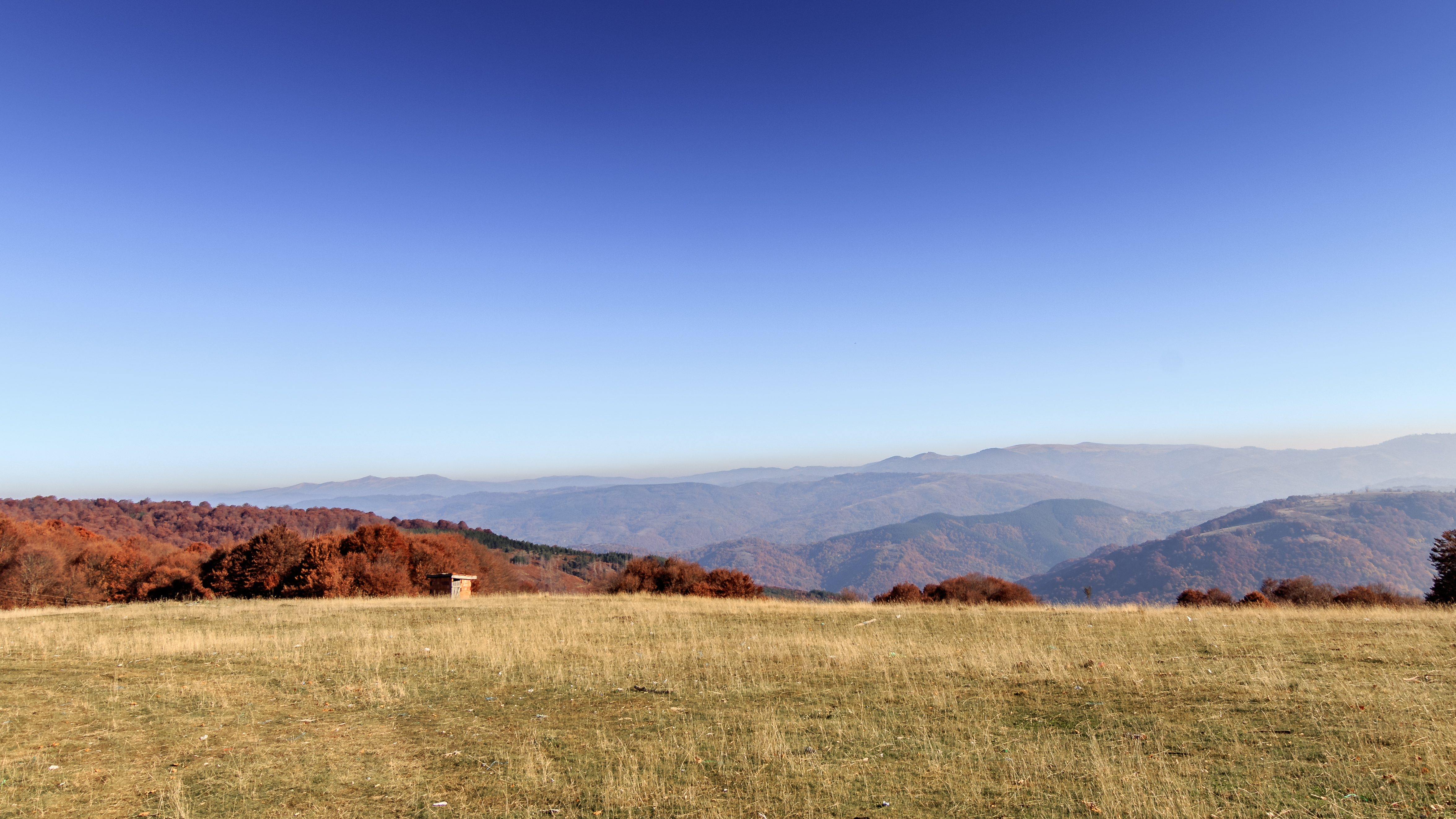 View of the mountains in the village German